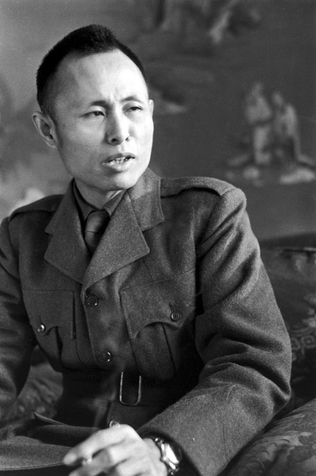 Aung San in uniform